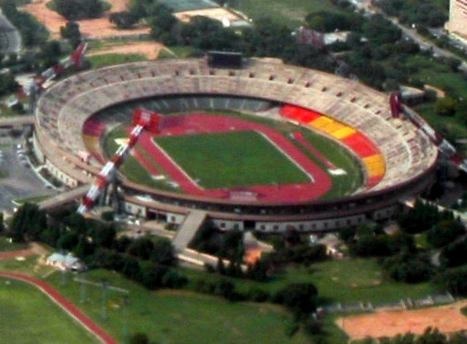 by TotallyAverage. Taken from Emirates Airlines DXB-DEL Flight ab yeh toot kar doobara re- construct ho raha hai.......